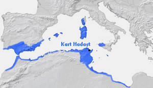 Map of the Carthagoan empire (romanian)